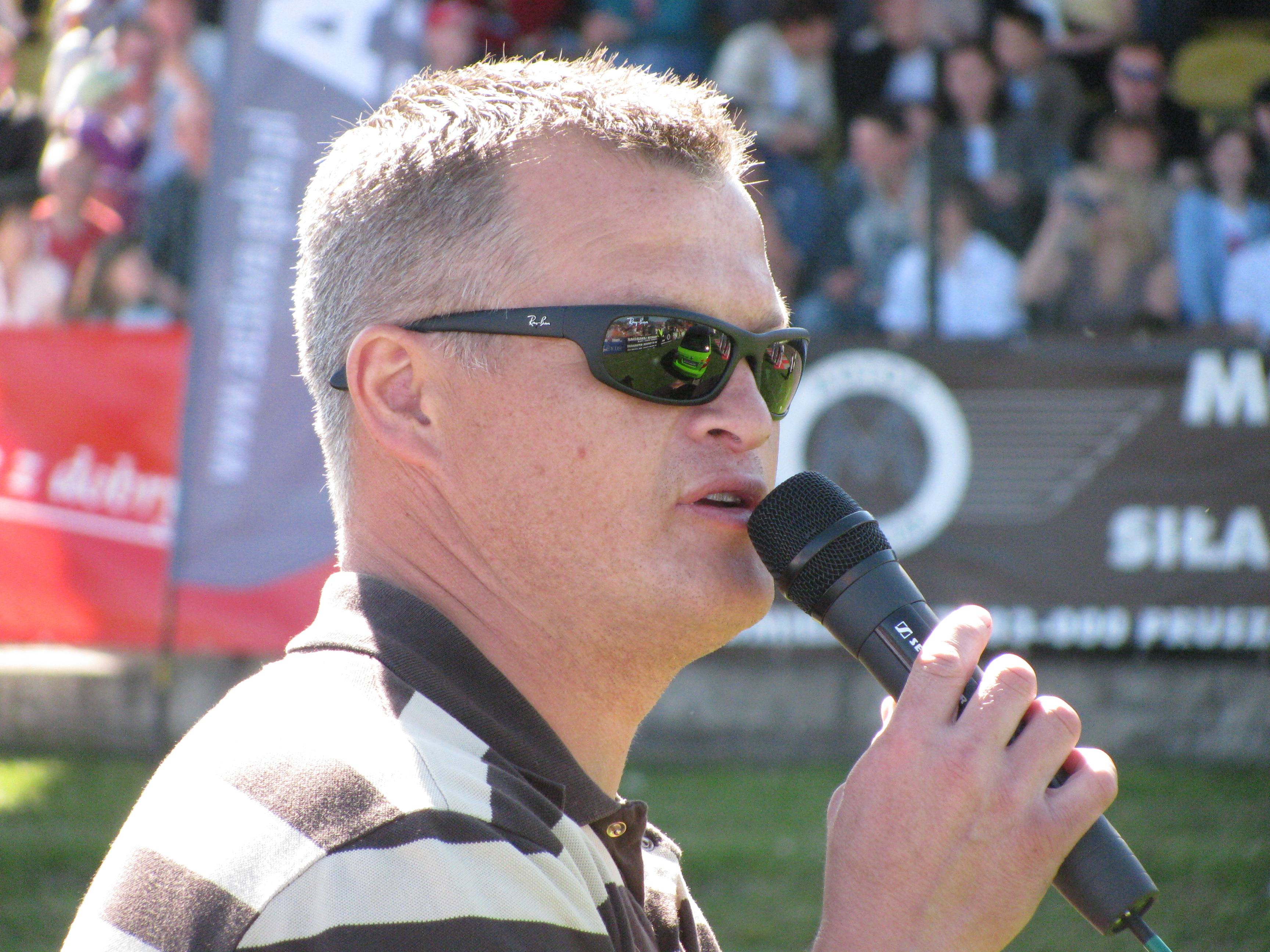 Ireneusz Bieleninik - a popular announcer and tv & radio presenter from Poland.